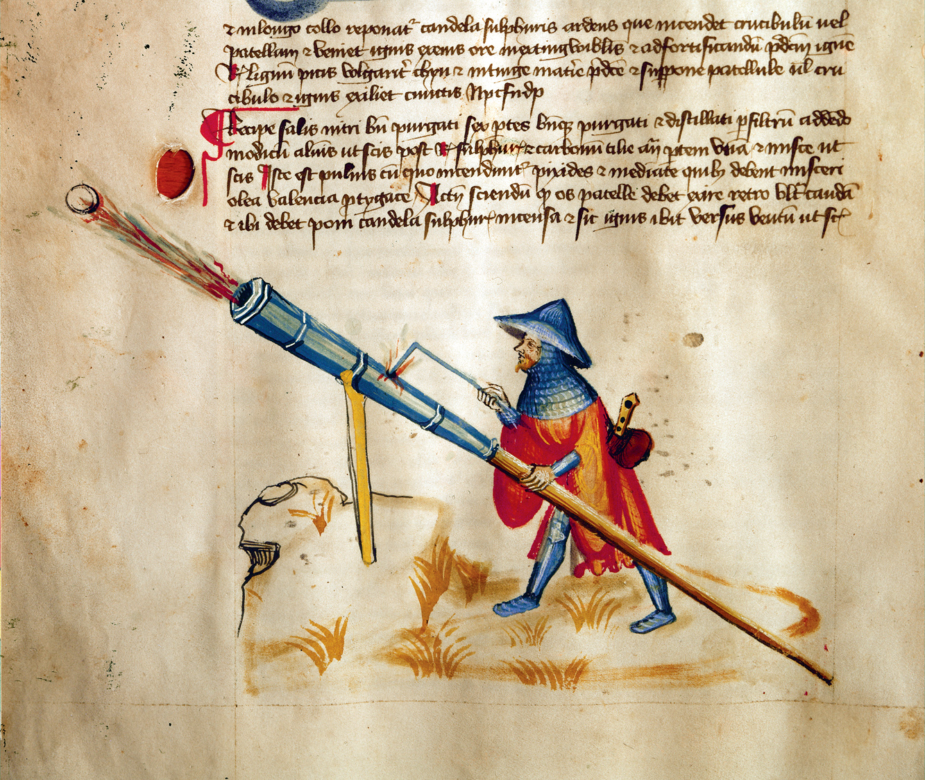 Hand cannon lighted by a hot iron rod being fired from a stand, manuscript by Konrad Kyeser: Bellifortis. Niedersächsische Staats- und Universitätsbibliothek Göttingen, 2° Cod. Ms. philos. 63 Cim. 1402-1404